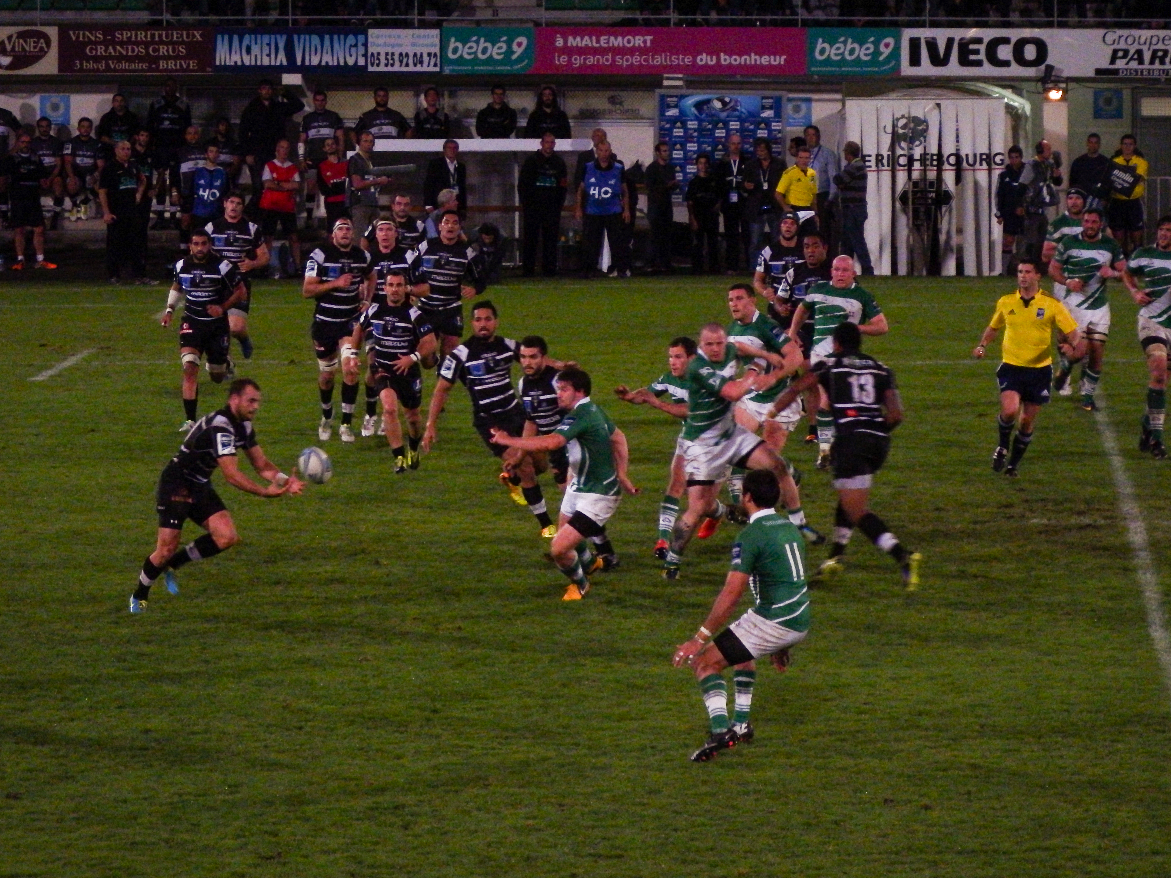 2013–14 European Challenge Cup — 19 October 2013, Stade Amédée-Domenech. Match between: CA Brive — Newcastle Falcons